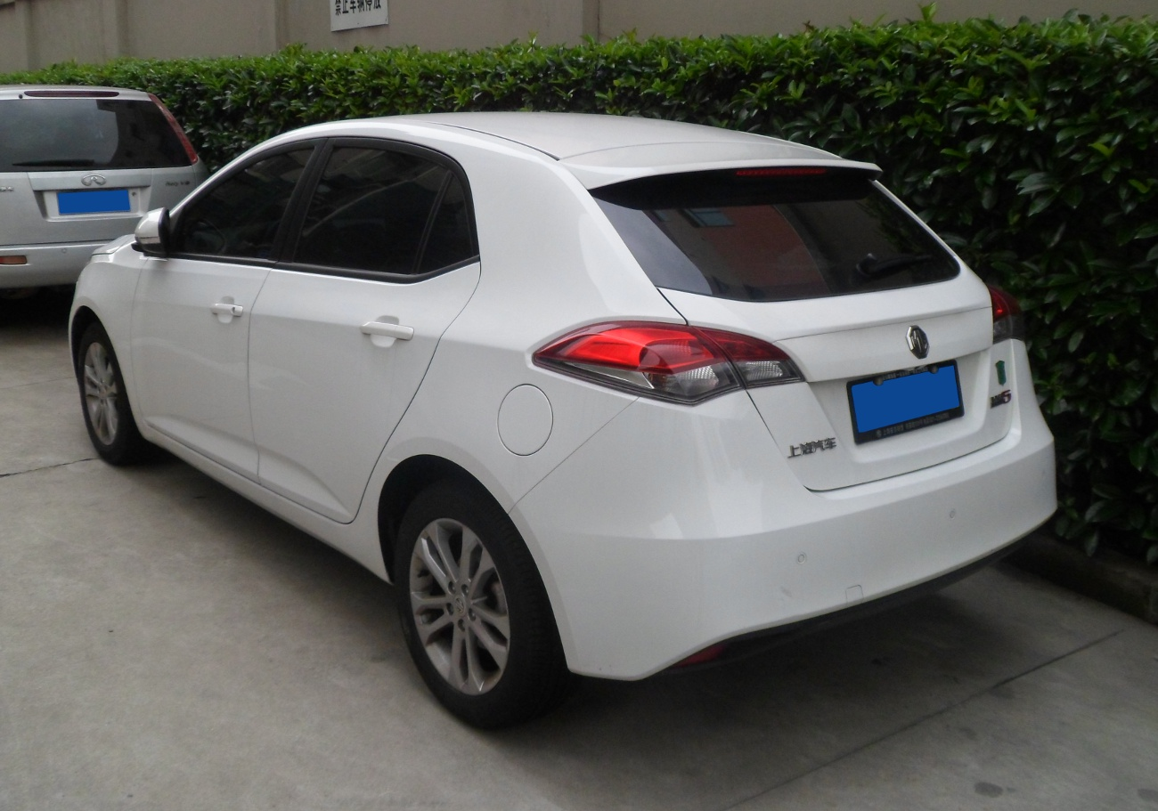 MG 5 photographed in Shanghai, China.